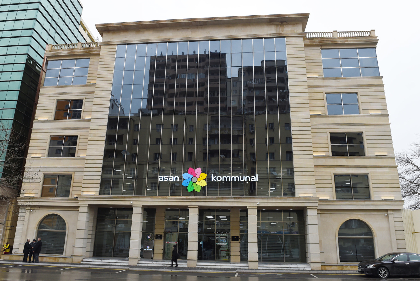 "ASAN Kommunal" Center No1 in Baku